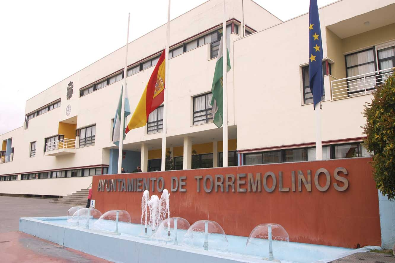 Town Hall of Torremolinos